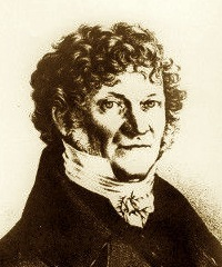 Scan from old drawing/engraving of Karl Dietrich von Münchow; from the Archive of the Sternwarte, Univ. Bonn.